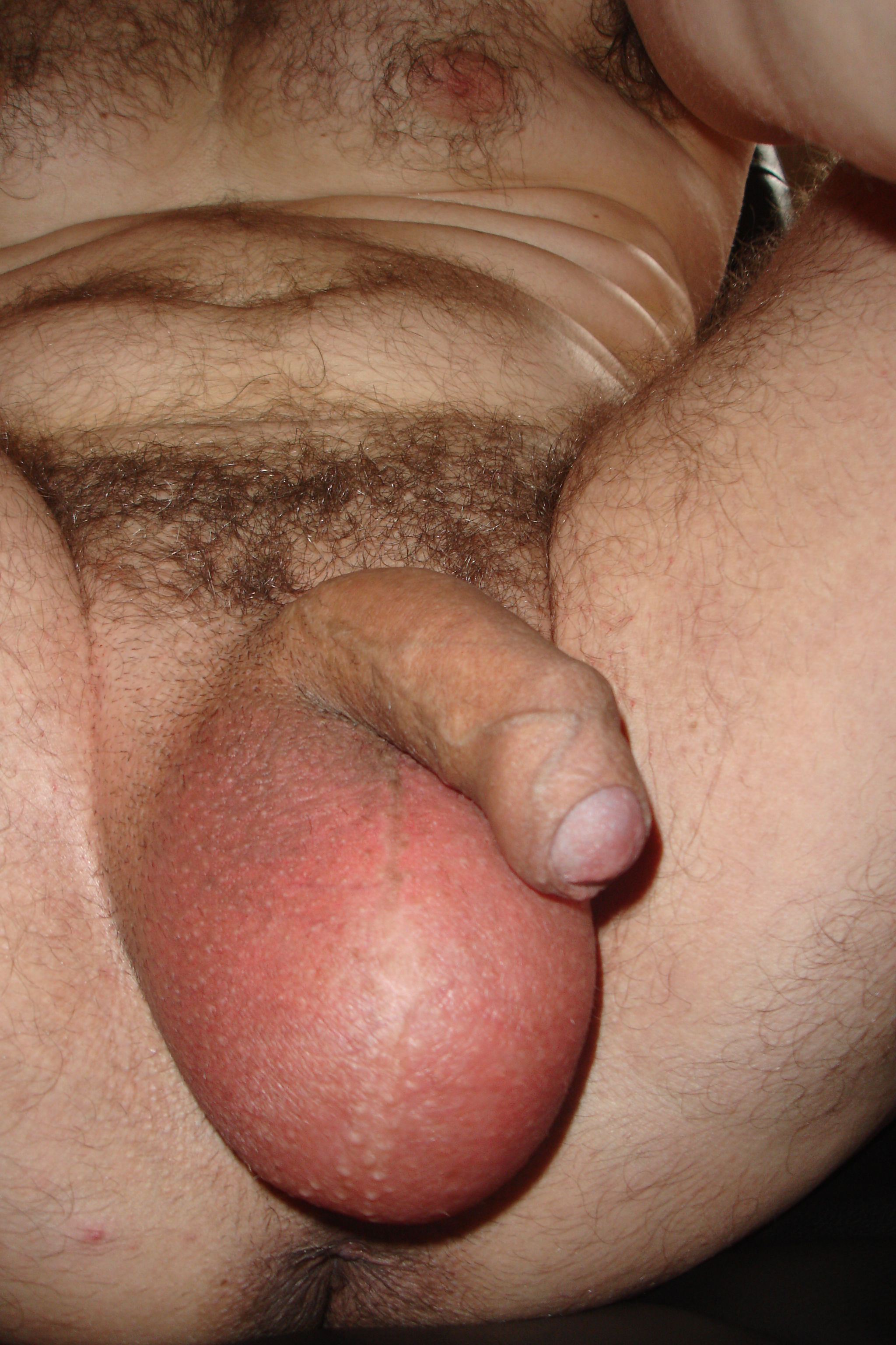 250 ml saline infused into the left side of scrotum